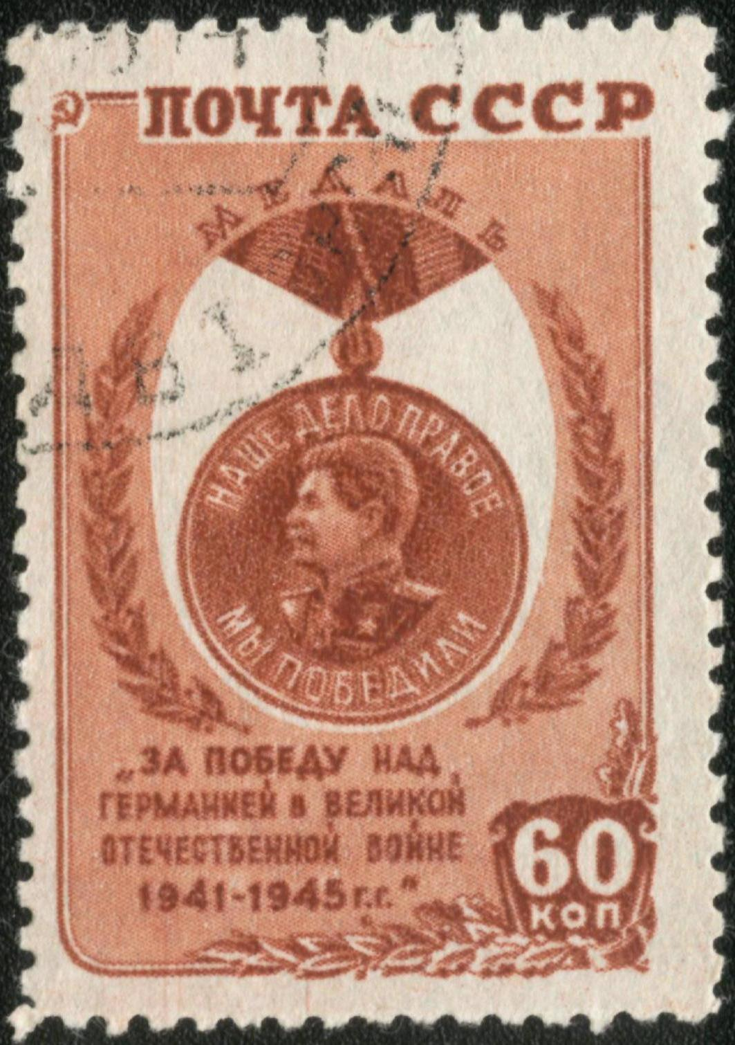 Soviet postage stamp of 60 kopecks. Medal For the Victory Over Germany in the Great Patriotic War. CPA #1019. Natural colours.